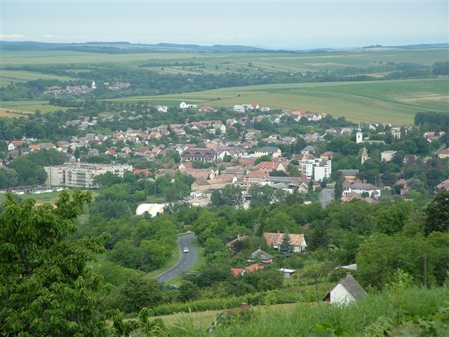 Tab, Hungary